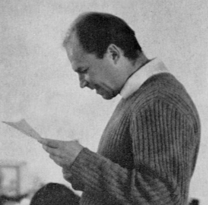 Piotr Słonimski, (1922-2009) French scientist (nephew of Antoni Słonimski, (1895-1976) Polish poet)